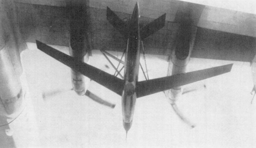 Model 147 RPV pictured in flight under wing pylon of DC130E launch aircraft